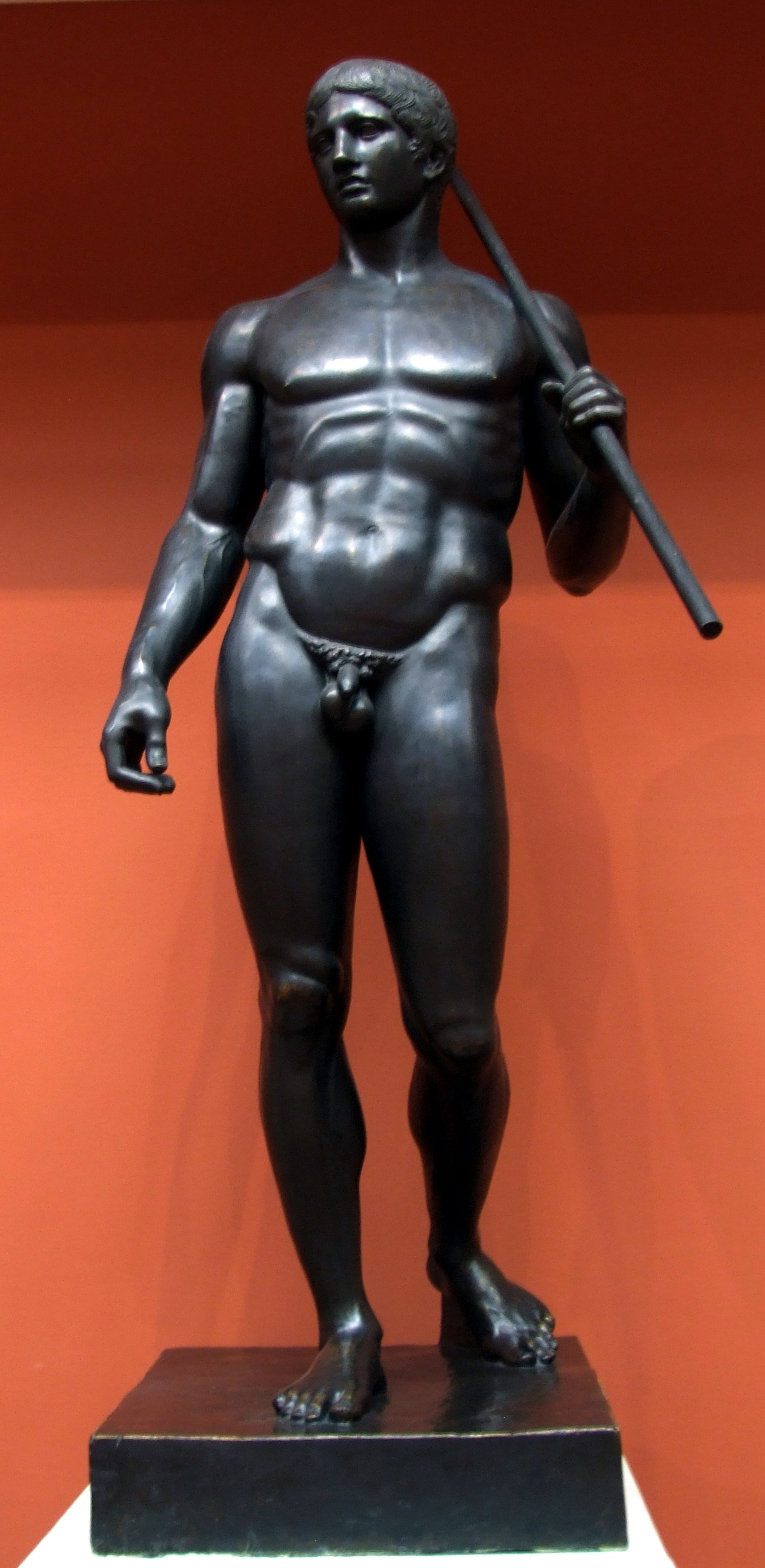 Polykleitos, The Doryphoros. Cast in Pushkin Museum, Moscow. The original in marble was found in the Palestra Sannitica in Pompeii, and is now in the Museo Archeologico in Naples.